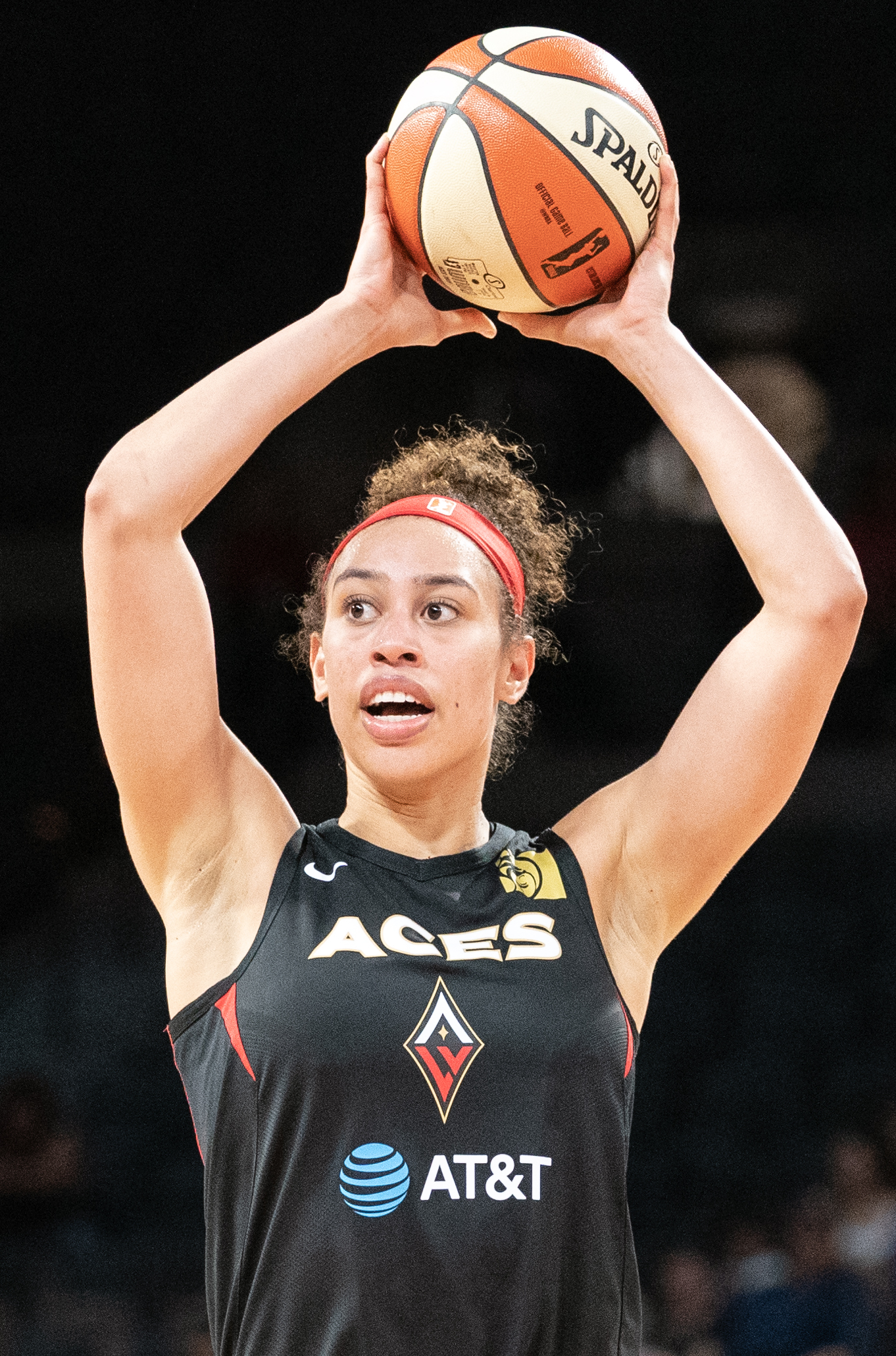 Las Vegas Aces player, Dearica Hamby looks for a pass in a game against the Minnesota Lynx